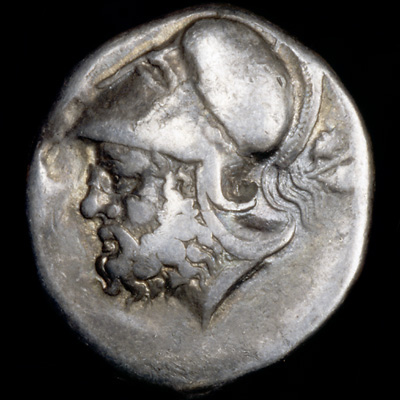 Silver Didrachm, Rome(Southern Italian Mint) 275-270 BC. (6.95g) Hd Mars L. Obverse Crawford 13/1